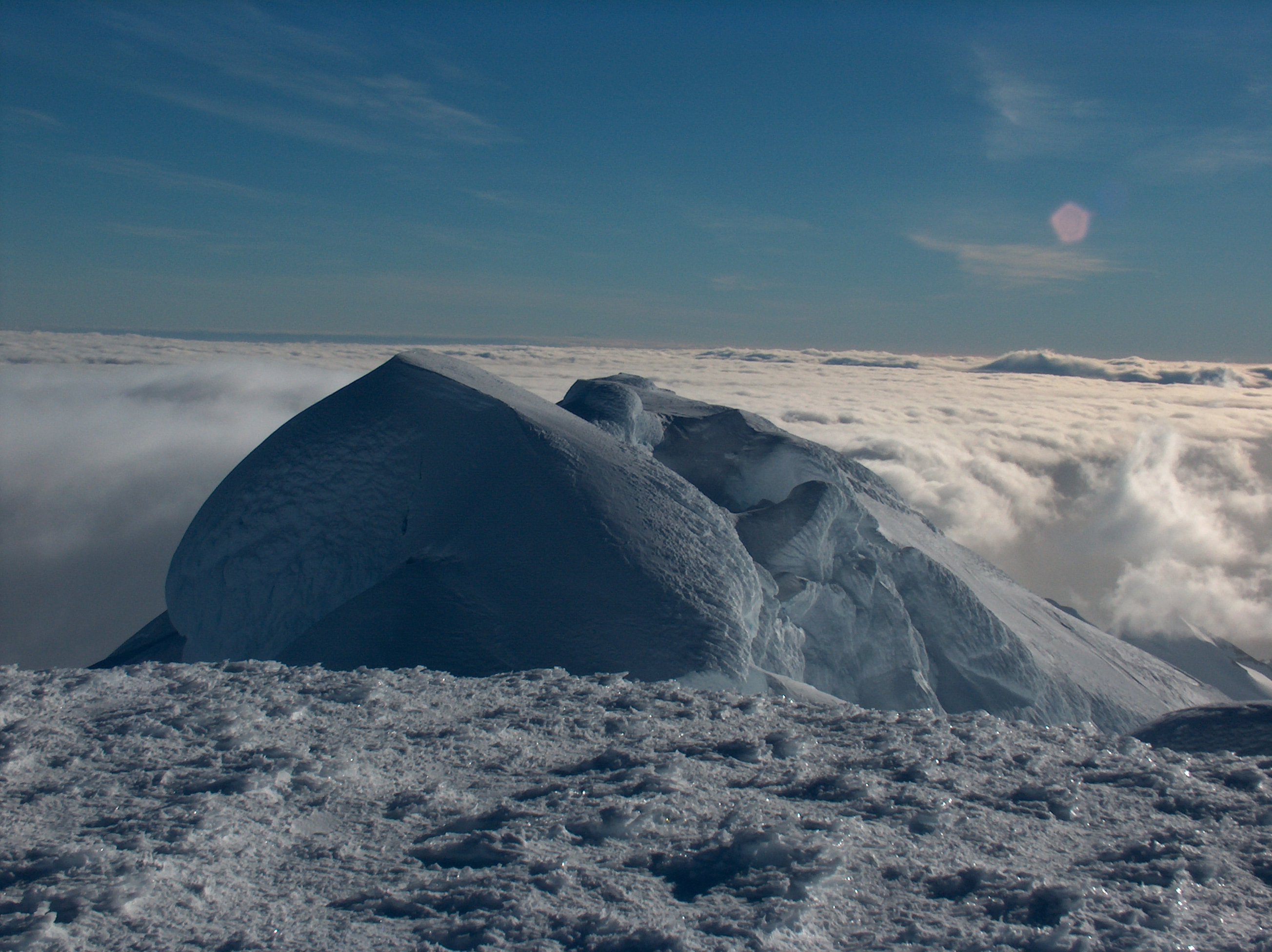 St. Boris Peak from Mount Friesland in Tangra Mountains on Livingston Island in the South Shetland Islands, with ‘The Synagogue’, a rock-cored ice form rising in the saddle between the two peaks dominating the foreground. The local ice relief is subject to changes, causing variations in the features’ elevation. This picture shows ‘The Synagogue’ as seen entirely below the horizon from Mount Friesland and therefore lower than the latter in the 2004/05 season. The GPS measured elevation of Mount Friesland was 1700 m in December 2003, 1702 m in December 2004, and 1693 m in December 2016. Viewpoint location: Mount Friesland, the summit of Tangra Mountains on Livingston Island, in the South Shetland Islands Viewpoint elevation: 1702 meters (ground) + 1.7 meters (camera) Camera: HP PhotoSmart C945 (V01.54)